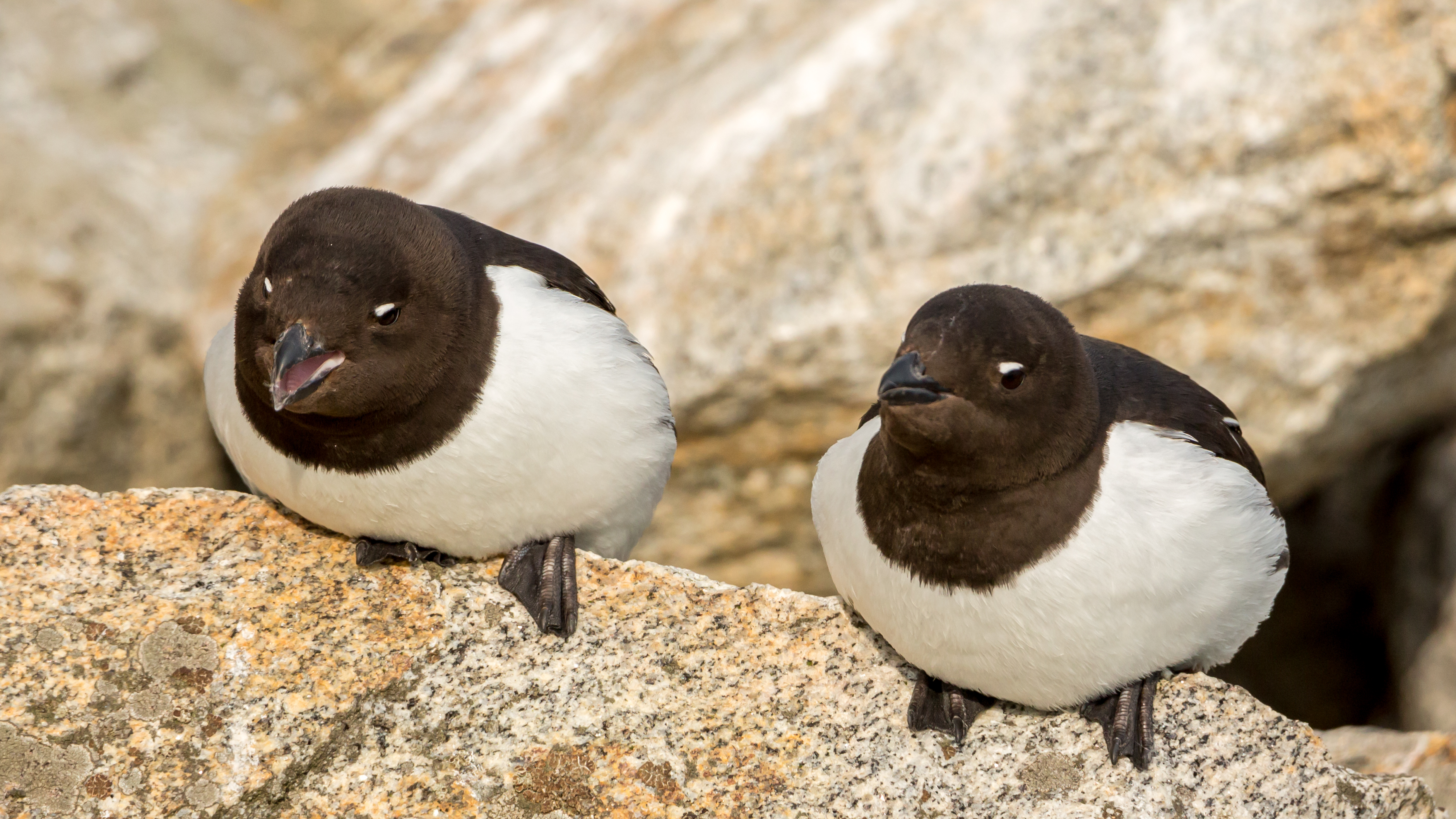 Little auks (Alle alle) are the smallest auks on Svalbard. The biggest colony breeds on a rocky slope at the island of Fuglesangen in the north of the archipelago